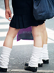 Loose socks in Japan